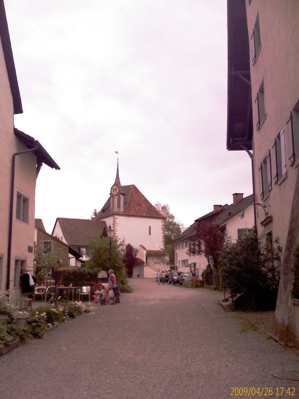 Centre of the city and church of Greifensee, canton of Zürich, SwitzerlandEsperanto: Urbocentro kaj preĝejo de Greifensee, Kantono Zuriko, Svislando